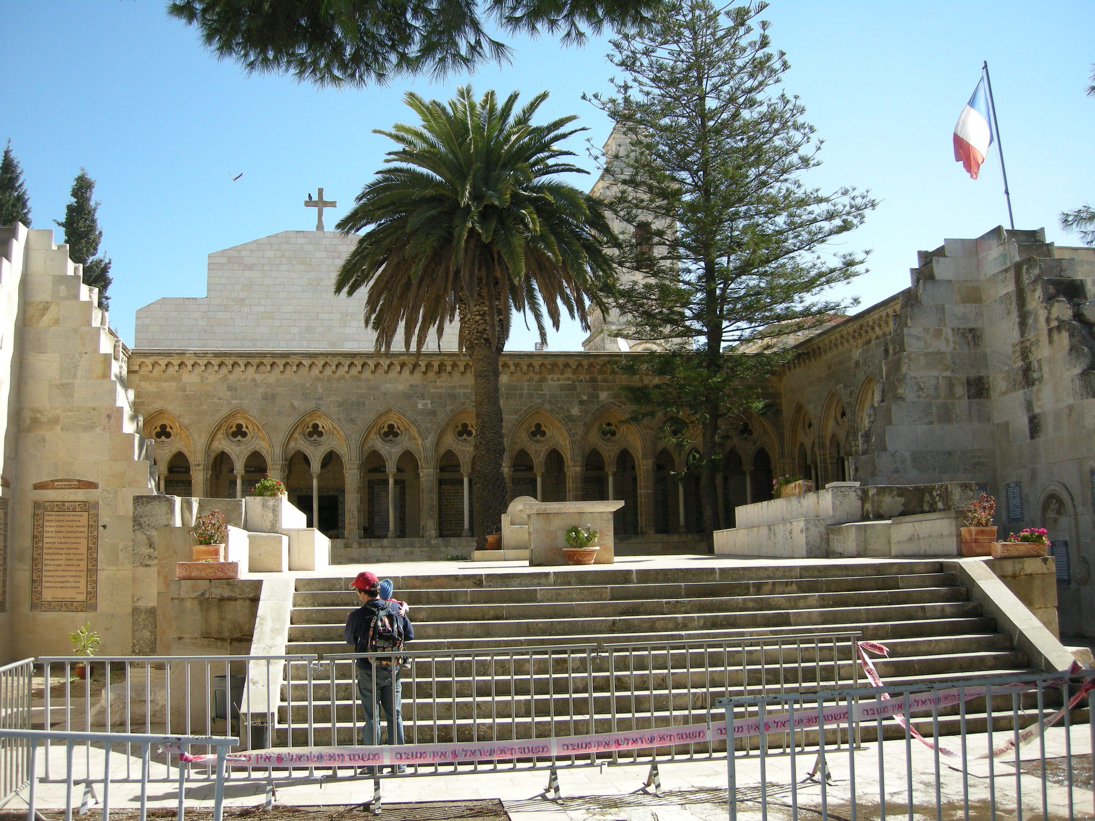 Jerusalem - Mount of Olives - Church of Pater Noster - this is not Church of All Nations (erroneous name)